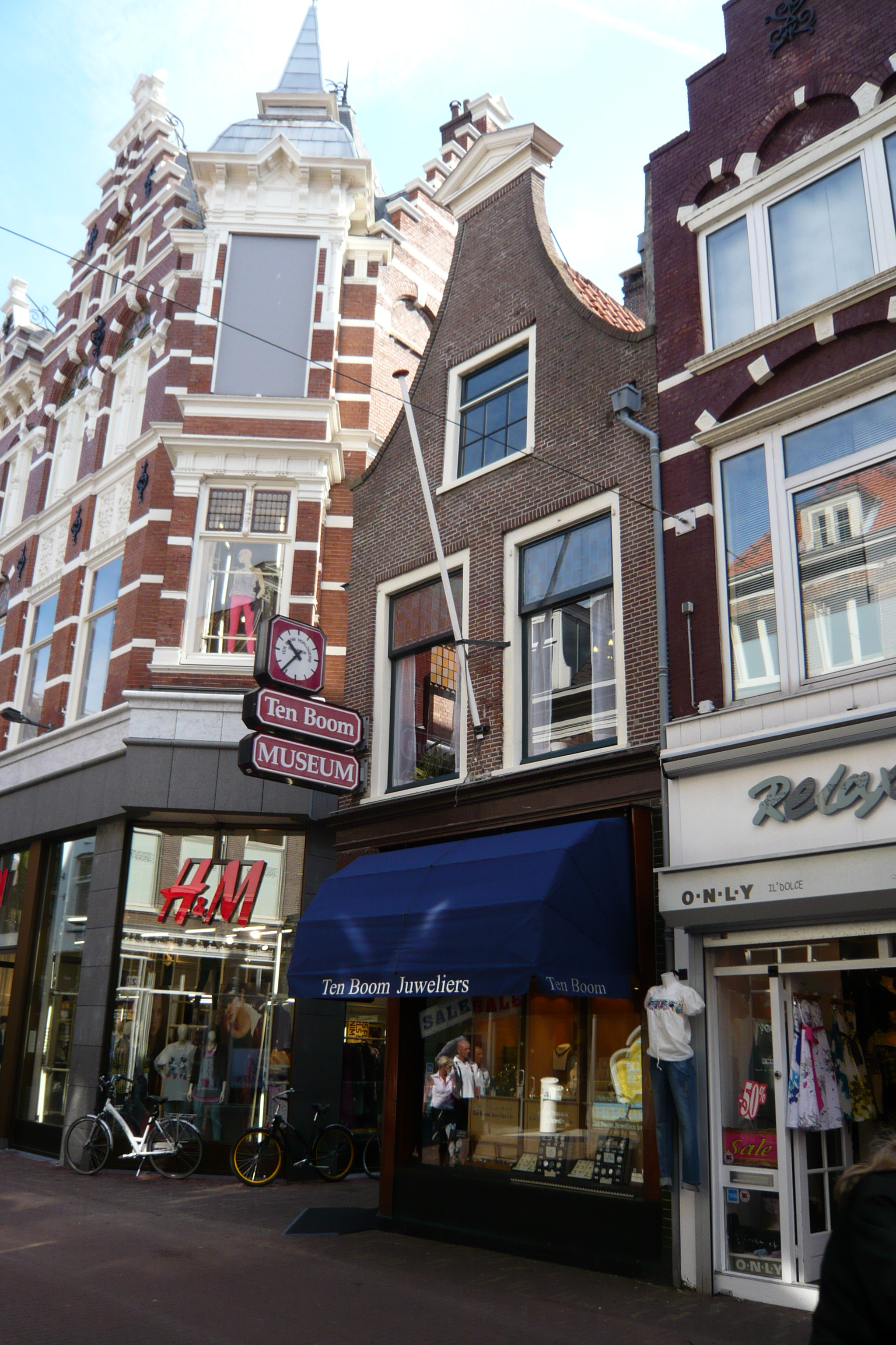 Picture of Ten Boom Museum on the Barteljoristraat in Haarlem, the Netherlands. The house is a watch shop and museum dedicated to the memory of Corrie ten Boom and her family, who harbored war refugees during World War II.